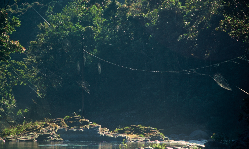 A photograph of severals web of Darwin's bark spider (Caerostris darwini) spanning a river